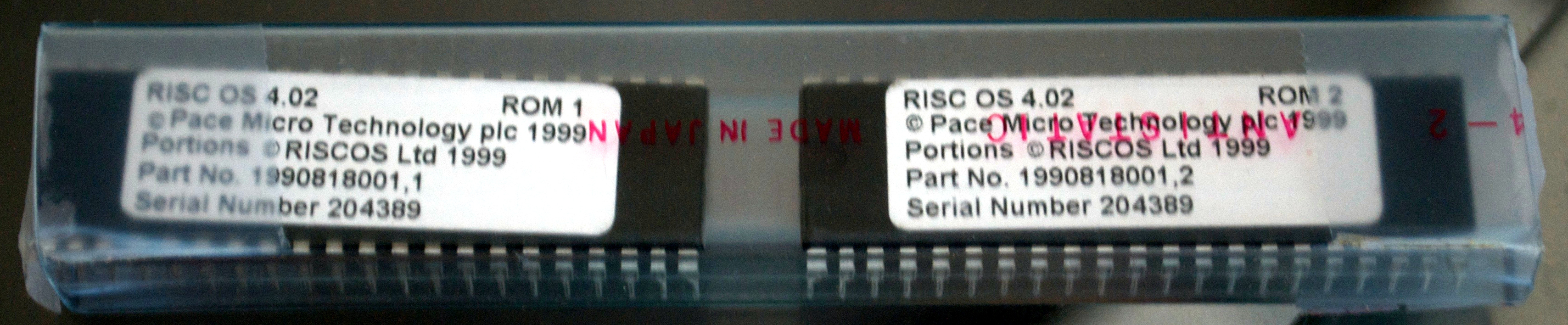 Bent Pins will Ruin Your Day. And the roms themselves! They're pretty standard... Oki 2MiB chips: M27C|652CZ. Unfortunately, shortly after this there was an accident with a bent pin, so now only the first ROM works - in essence, they're useless. My waste of £22 for this month.